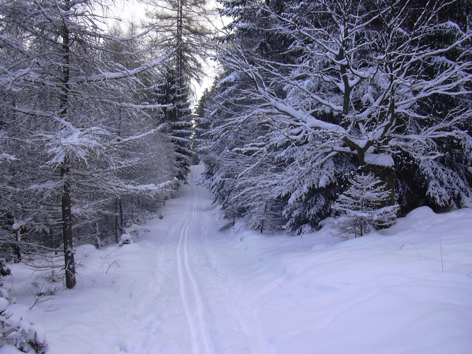 Cross-country skiing trail on the northern slopes of Písek mountain in the Brdy hills, Czech Republic